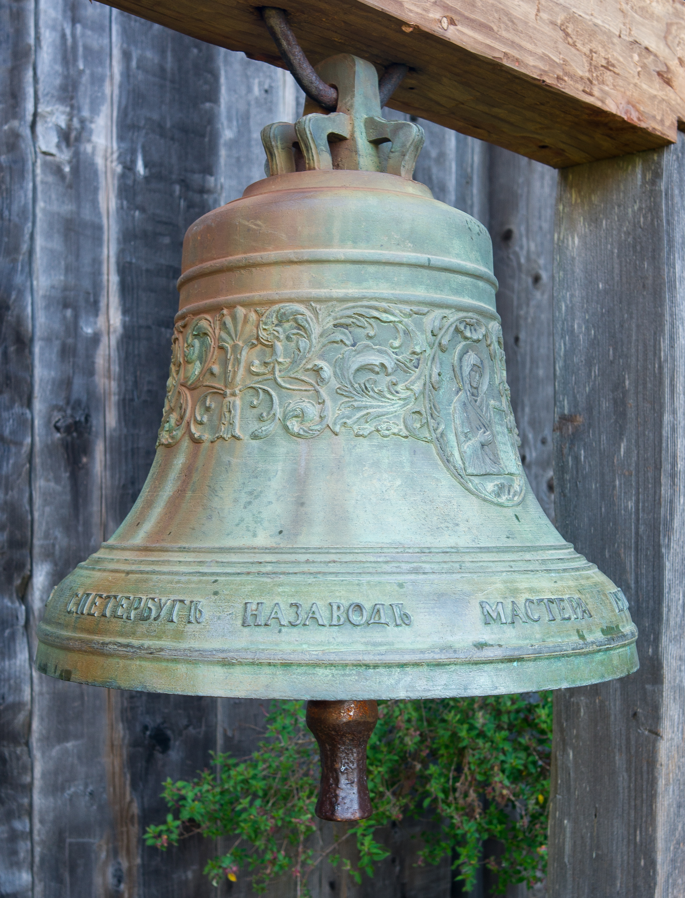 Bell in fronth of the Orthodox Church, Fort Ross, California.